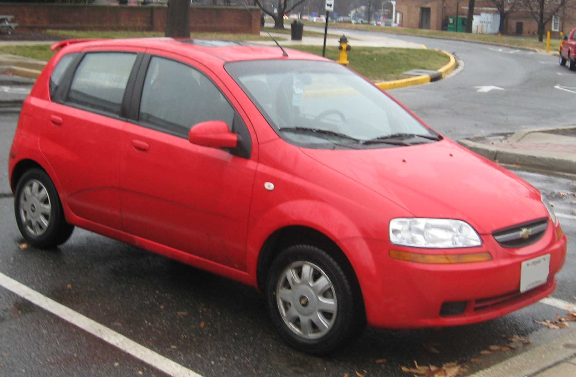 2004-2006 Chevrolet Aveo photographed in College Park, Maryland, USA.